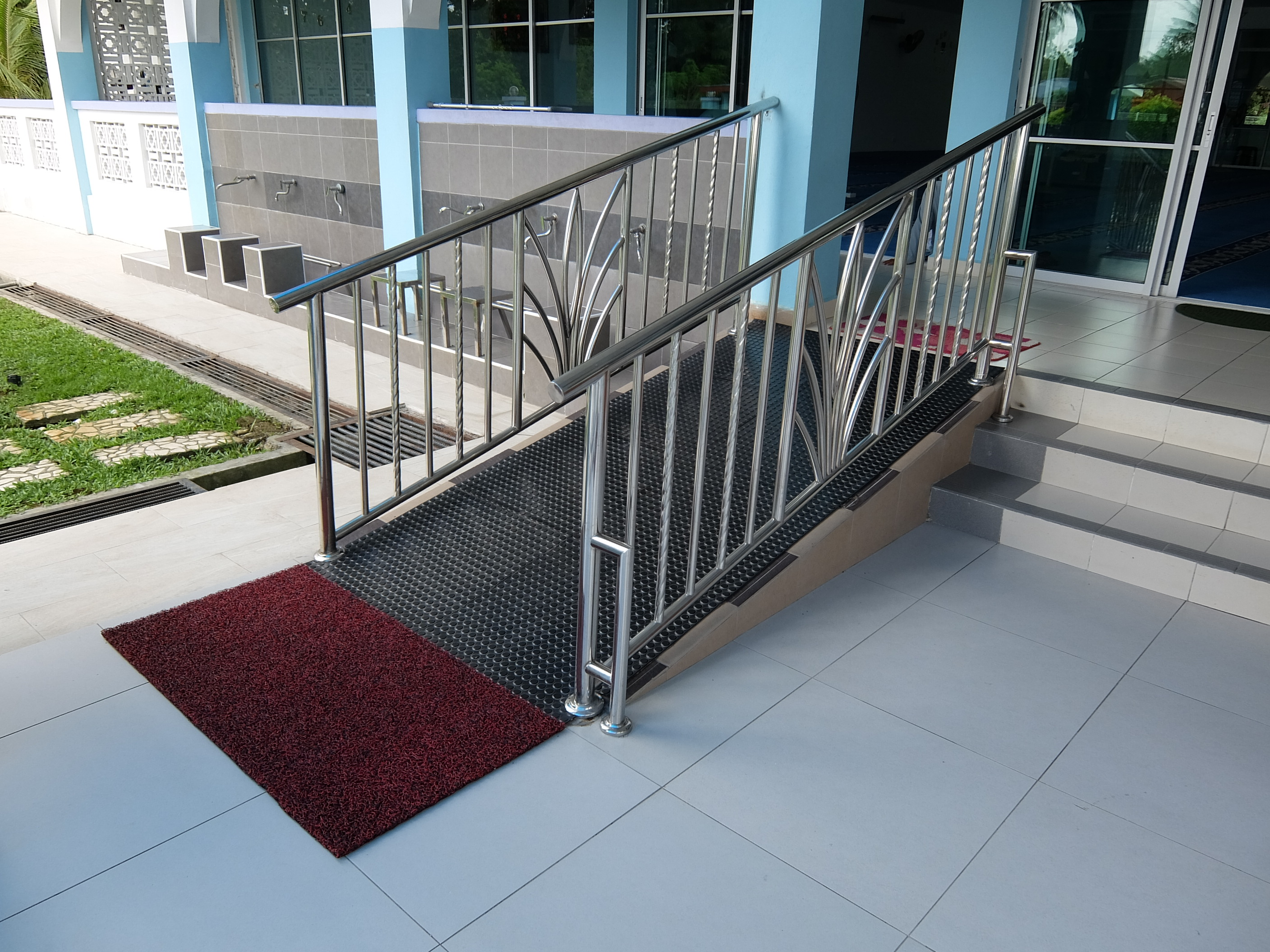 Nurul Muttaqin Mosque, Ulu Pulai Village, Jeram Batu, Pontian, Johor, MalaysiaBahasa Melayu: Masjid Nurul Muttaqin, Kampung Ulu Pulai, Jeram Batu, Pontian, Johor, Malaysia